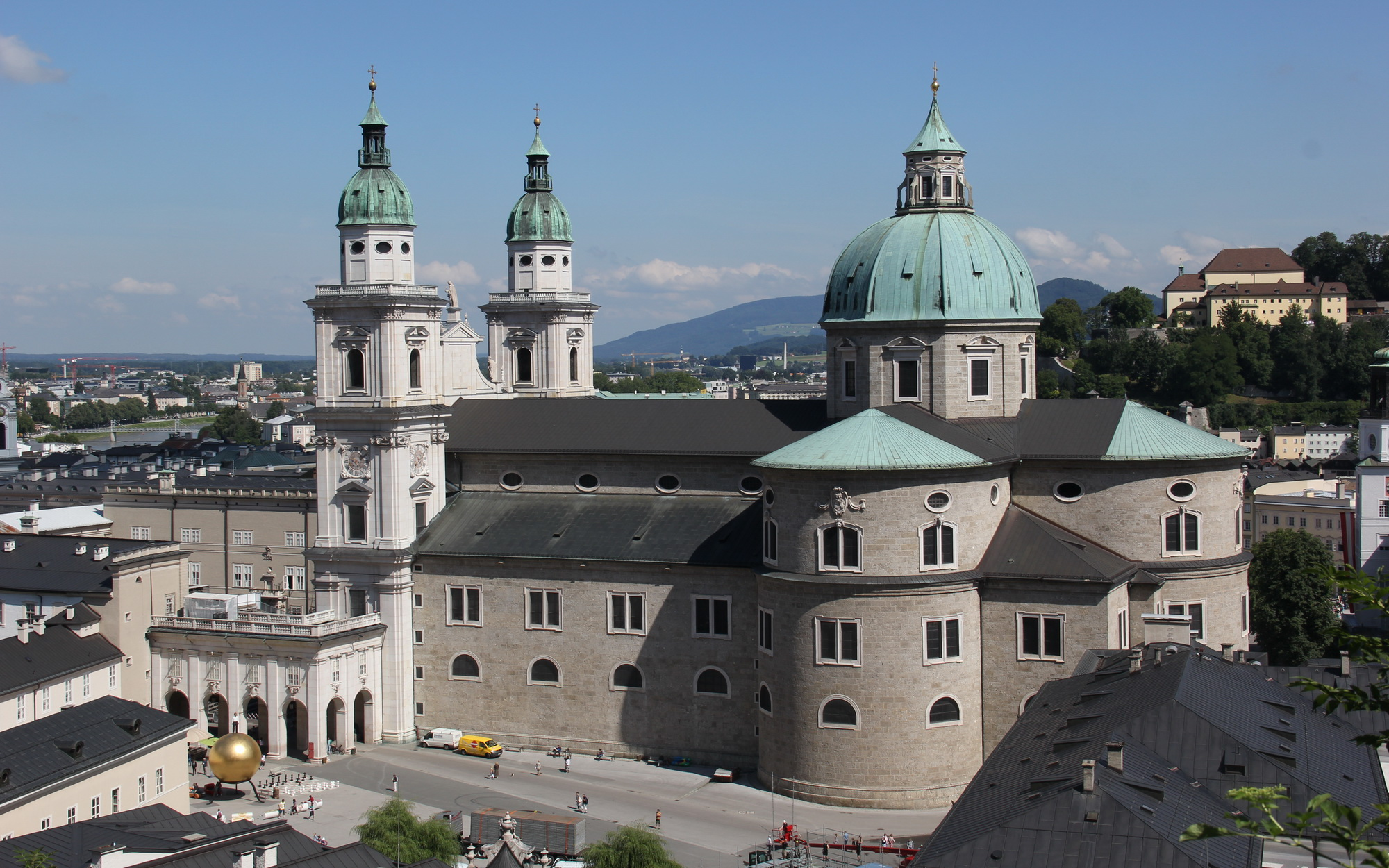 Salzburg Cathedral Native nameSalzburger DomLocationSalzburg, AustriaCoordinates47° 47′ 52.34″ N, 13° 02′ 47.9″ E Established8th century date QS:P,+750-00-00T00:00:00Z/7Web page control : Q258908 GND: 4224677-5 institution QS:P195,Q258908